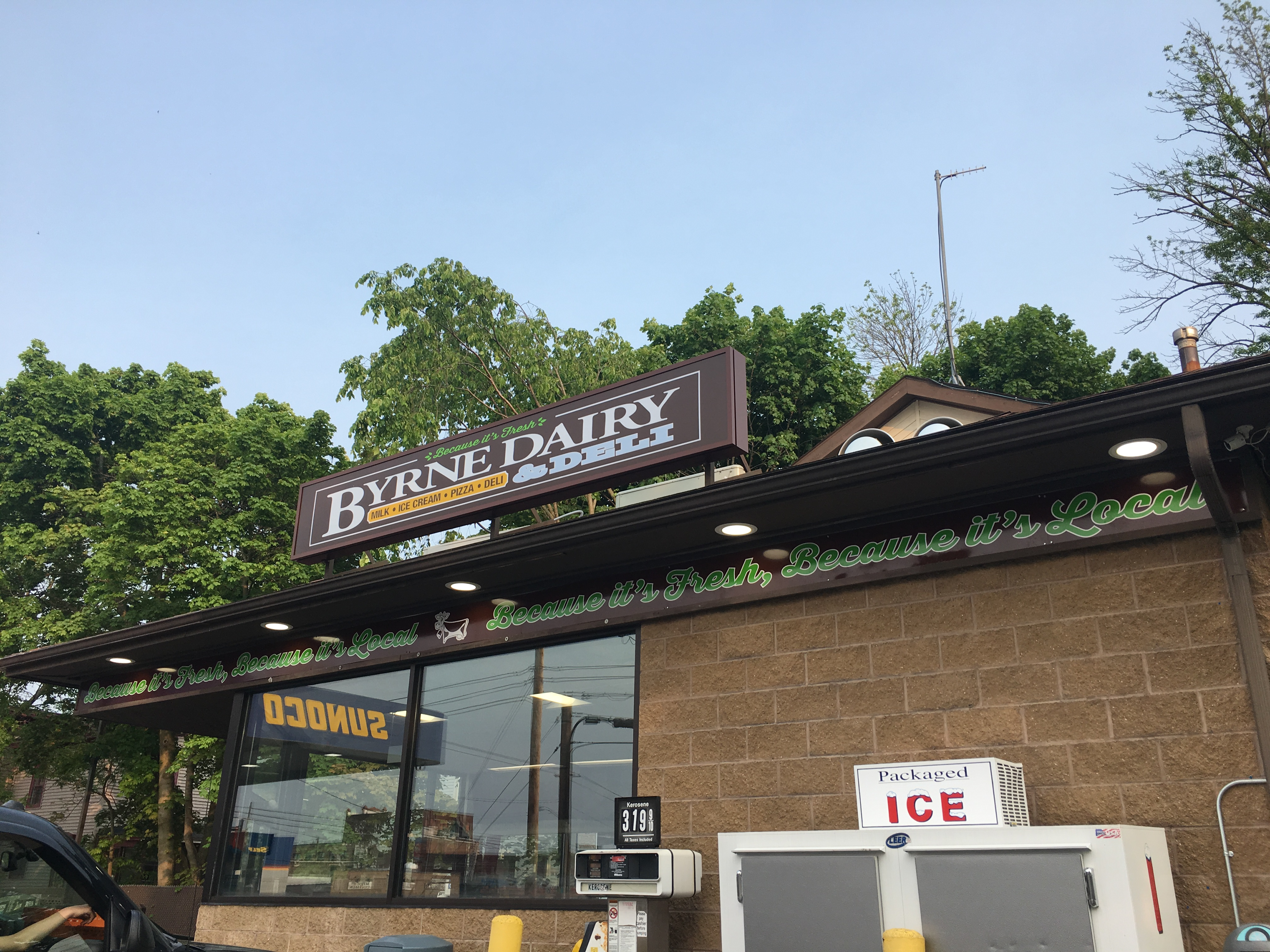 Byrne Dairy Oneida, New York. May 2019